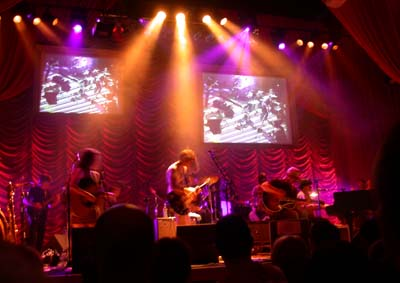 The band Lambchop onstage at the De Montfort Hall, Leicester, United Kingdom